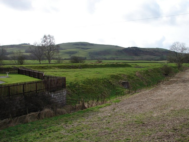 Irongray Station Traces of the single platform Irongray Station and track of the Cairn Valley Railway (Dumfries-Moniave 1905-1949). Beyond rises Hall Hill.